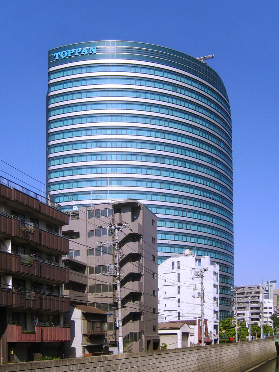 Toppan Plinting Co., Ltd. Koishikawa Bldg. (凸版印刷株式会社小石川ビル), in Bunkyo, Tokyo, Japan